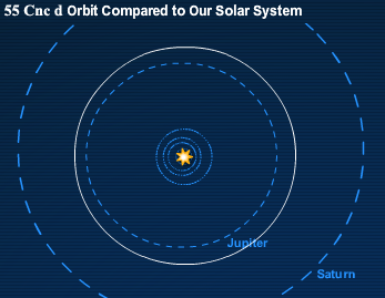 55 Cancri d's orbit compared to Jupiter's orbit (5.2AU) in our Solar System.